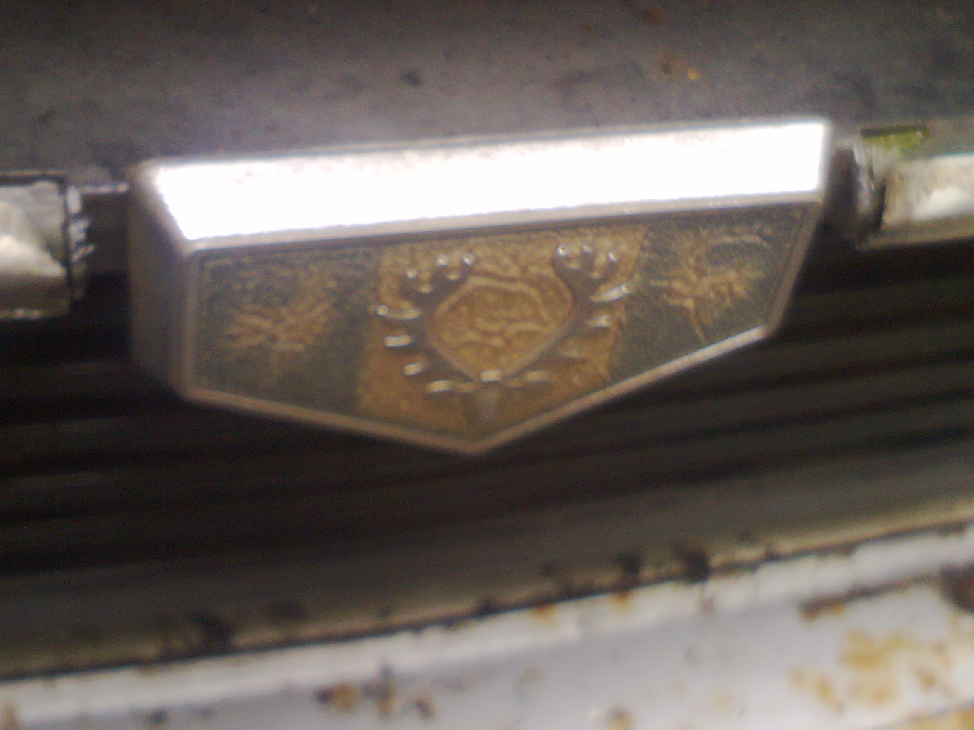 Located in Nicosia, Cyprus.